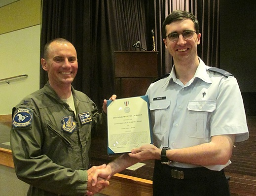 Osan AB Vice Commander Col. Cary Culbertson Presenting Commander's Public Service Award to Ch. James Moser